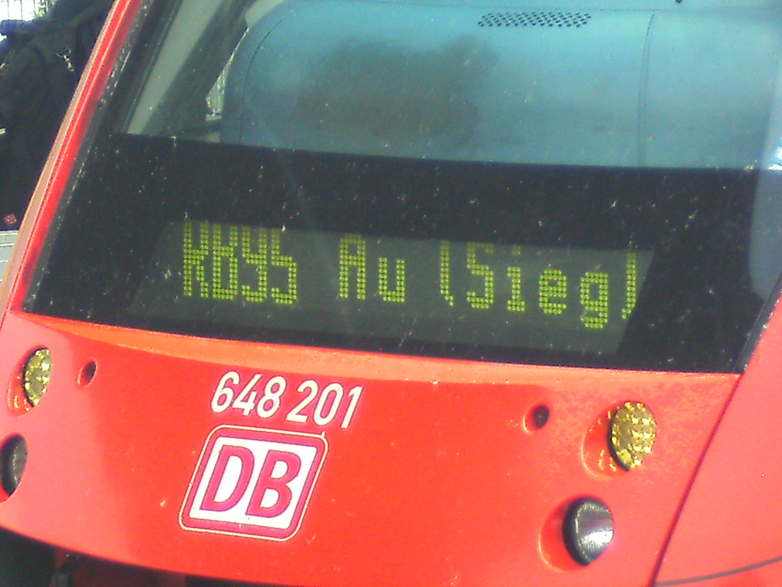 DB class 648 at the station Wissen